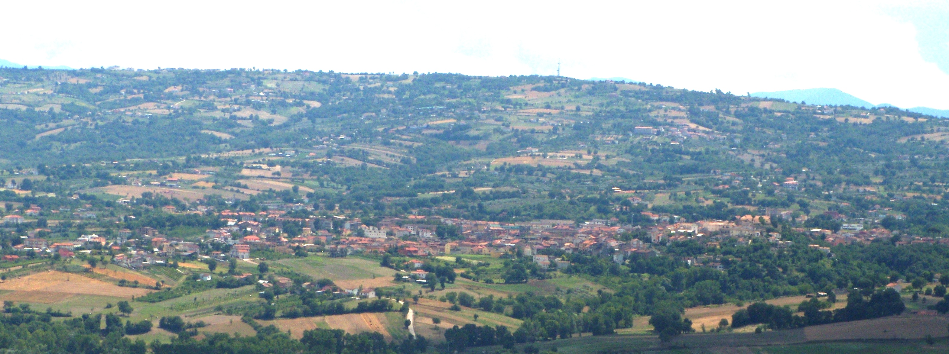 Grottaminarda, view from Ariano Irpino countryside.